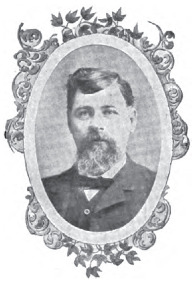 Richard H. Cosgriff, a private in the 4th Iowa Cavalry during the American Civil War, was awarded the Medal of Honor for his actions during an engagement in Columbus, Georgia.